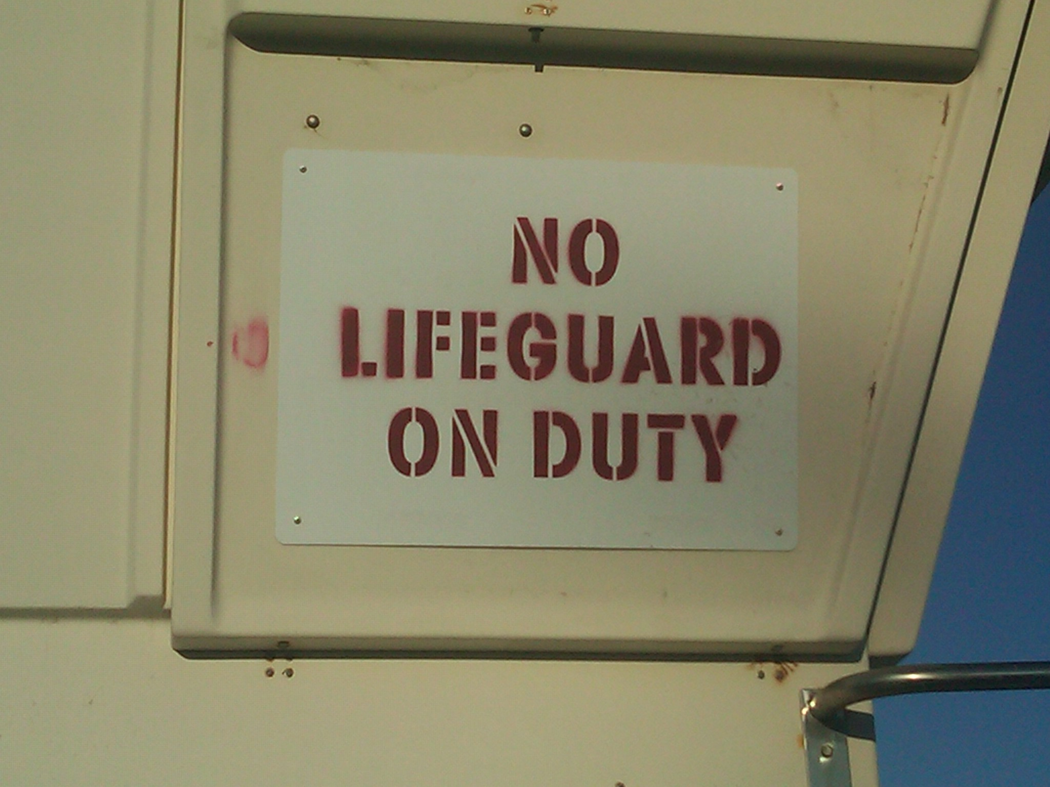 Picture taken of a Lifeguard warning sign while vacationing at a beach in Santa Barbara, California in 2011.